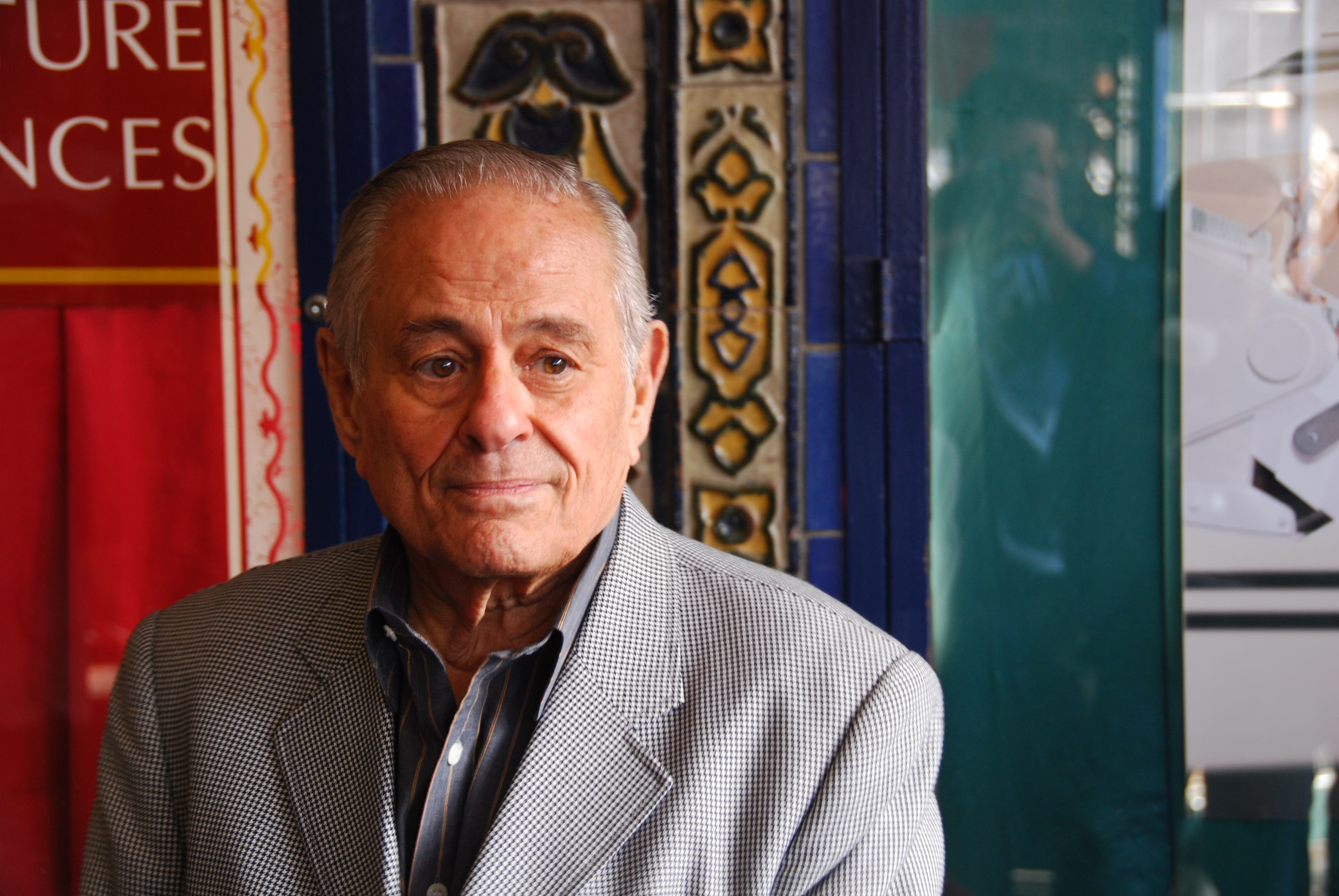 Entrepreneur, inventor, and film producer Maurice Kanbar at the 50th San Francisco International Film Festival.